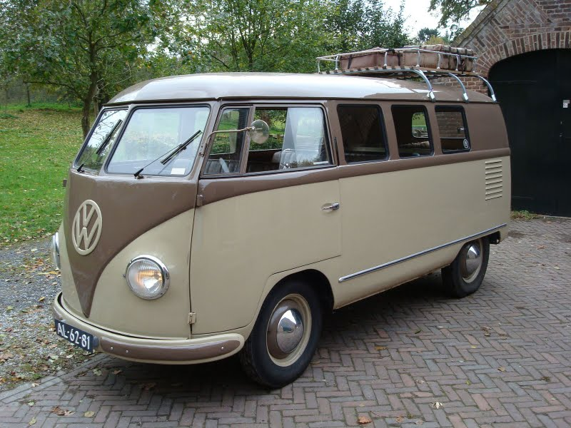 1952 VW Barndoor brown back